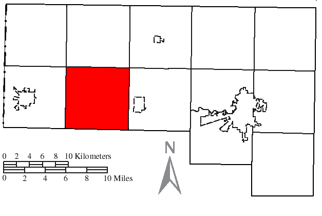 Made by the US Census and modified by myself